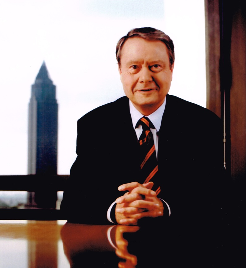 Prof. Dr. Walter Kunerth